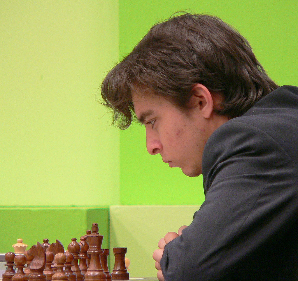 Lázaro Bruzón at the 2005 Corus Chess tournament